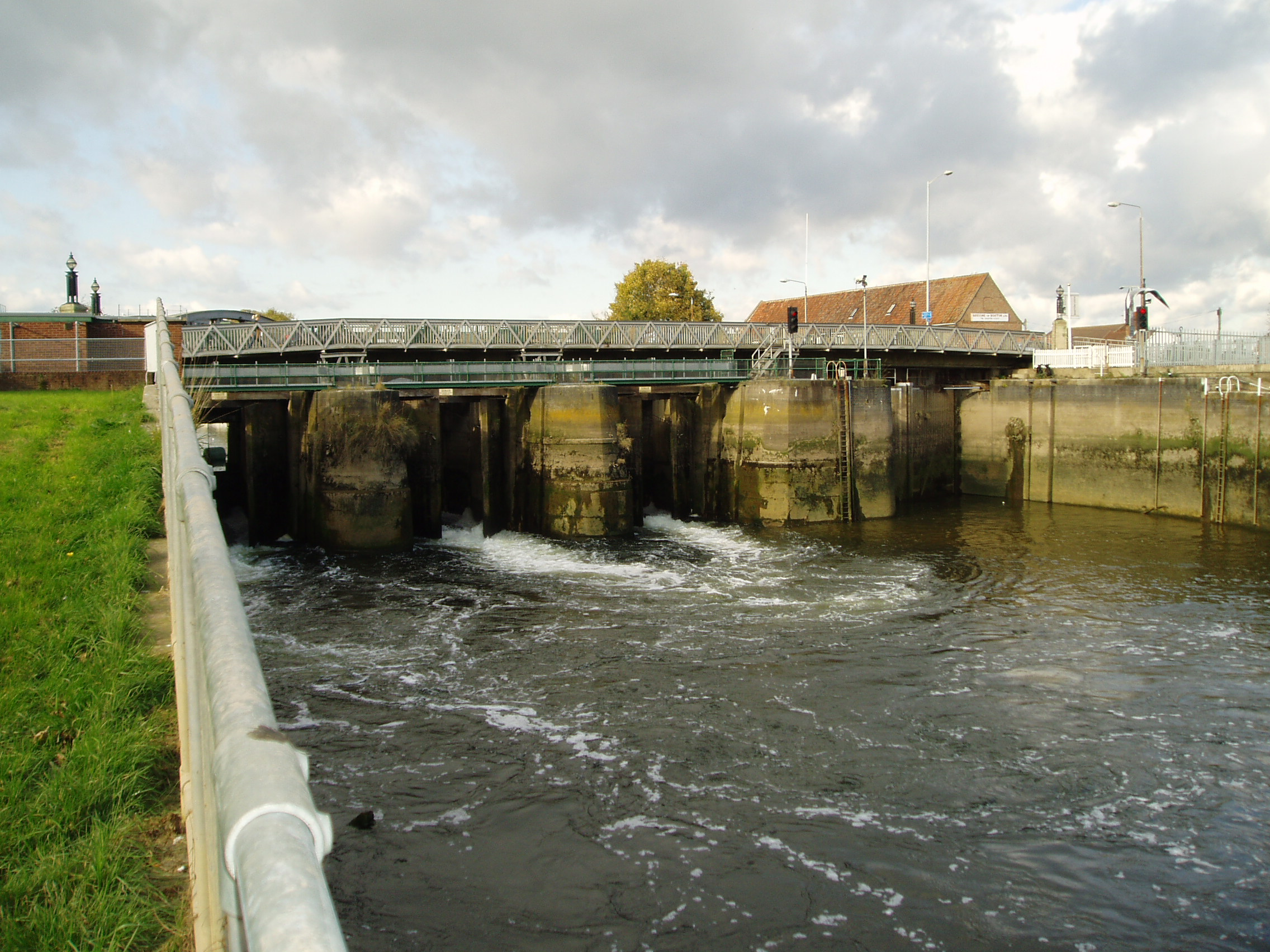 The downstream side of the Grand Sluice, where the River Witham empties into The Haven at Boston, Lincolnshire. The lock is on the far right.